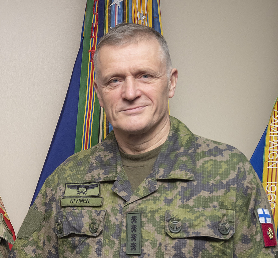 Chairman of the Joint Chiefs of Staff Gen. Mark A. Milley meets with commander of the Finnish Defense Forces Gen. Timo Kivinen Feb. 25, 2020 in the Pentagon, Washington, D.C.